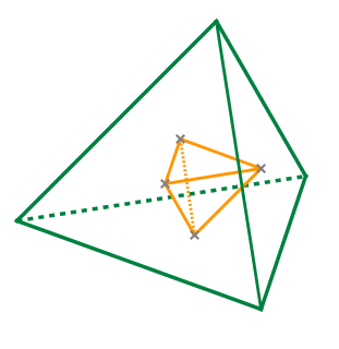 Duality of tetrahedron